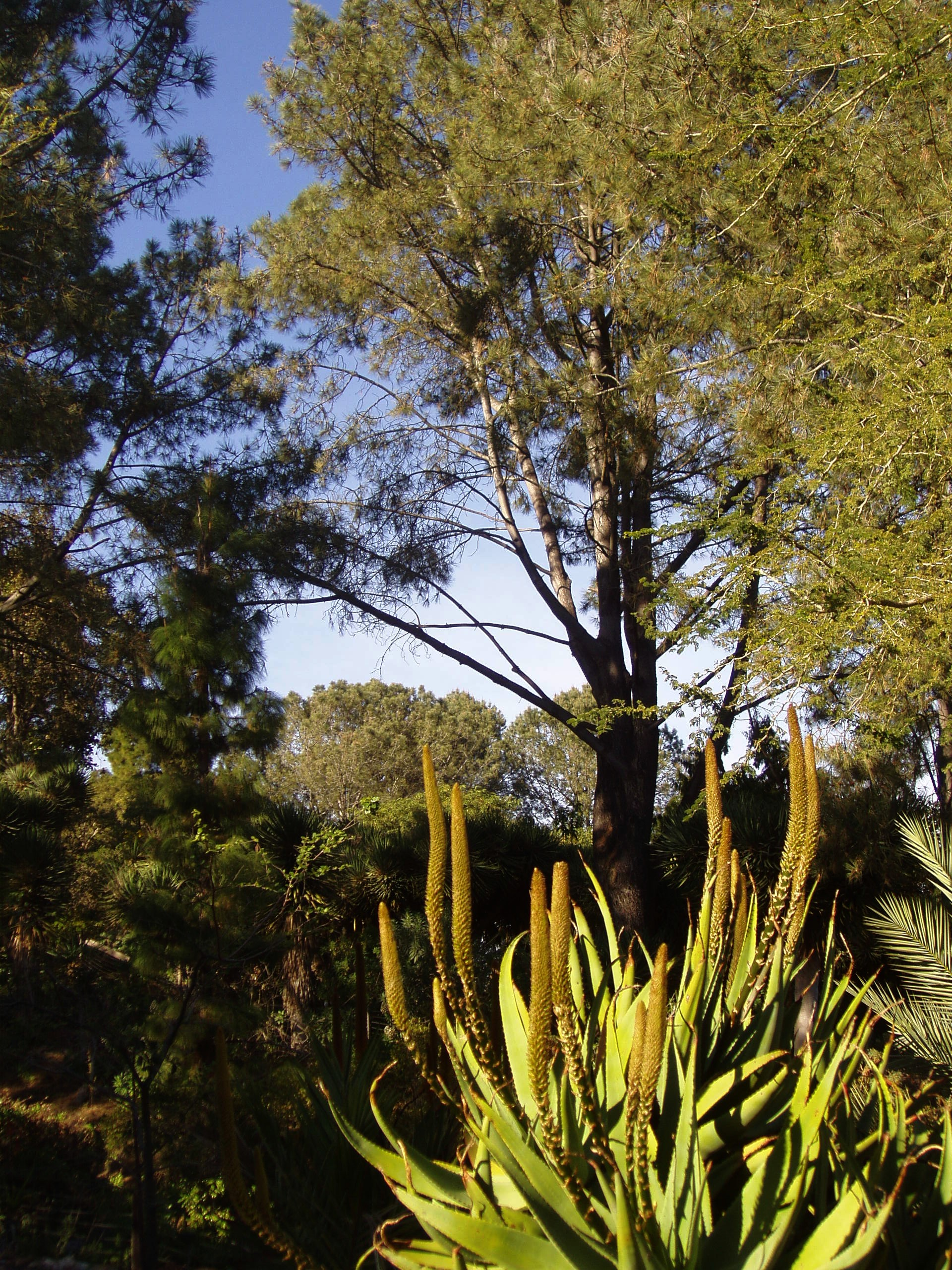 View of the San Diego Botanic Garden (formerly Quail Botanical Gardens) in Encinitas, California. Photograph taken by me, January 2006.